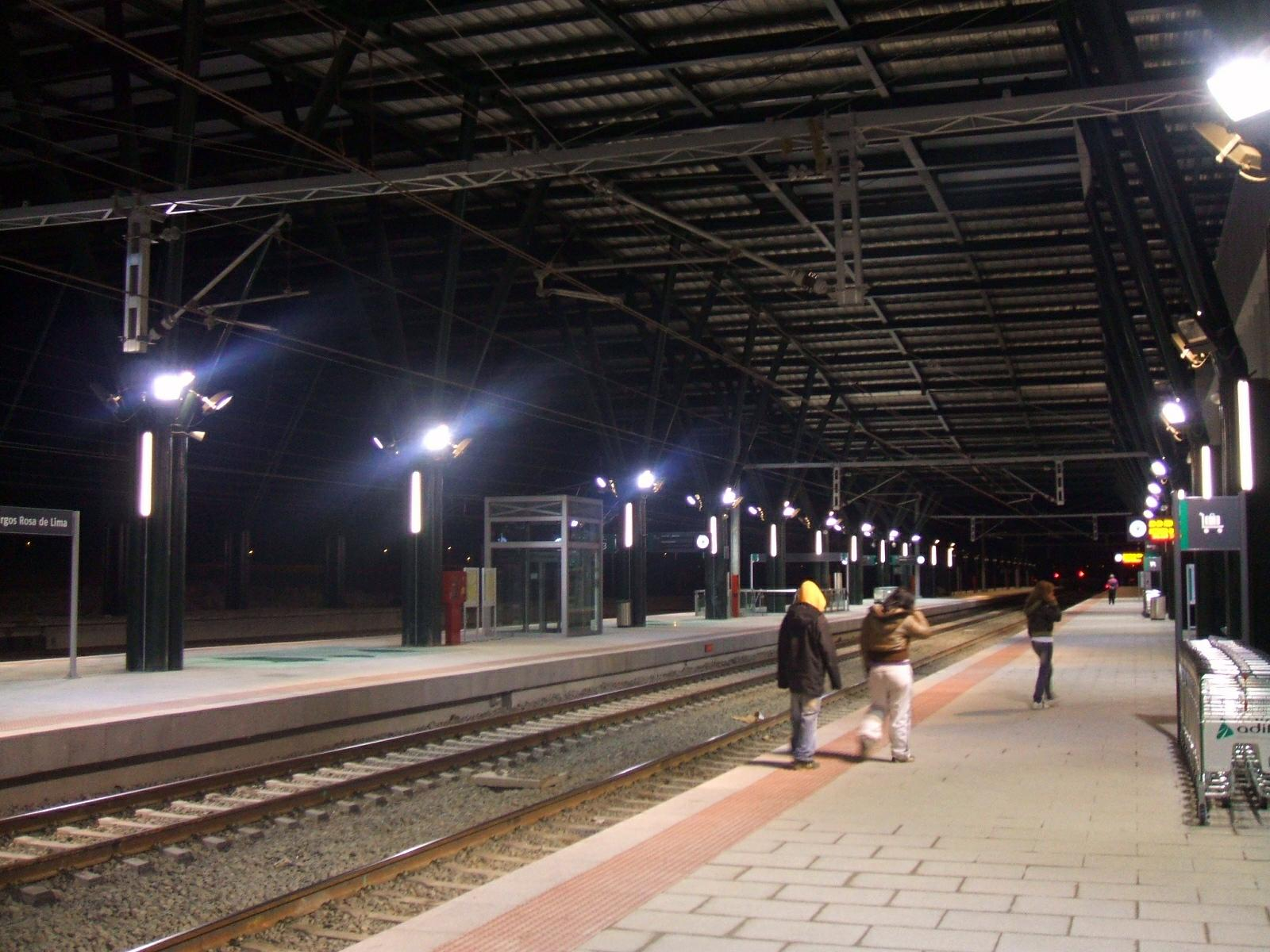 Estación para trenes de alta velocidad (AVE) de Burgos-Rosa de Lima (Burgos, Castilla y León, España)